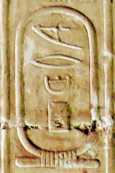 Cartouche 6, Abydos King List. Temple of Seti I, Abydos, Egypt.